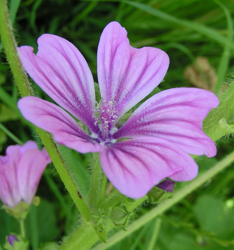 Common mallow (Malva sylvestris). Photo by sannse, Wivenhoe trail (Colchester to Wivenhoe), 9 June 2004.